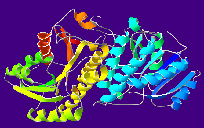 Gen w/ Deepview from PDB:1A4U